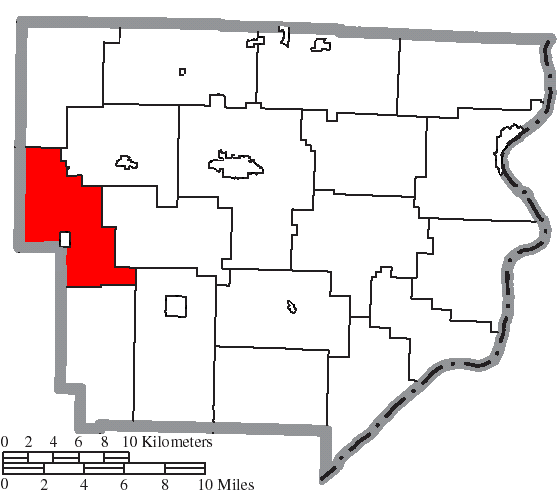 Map of the municipal and township boundaries of Monroe County, Ohio, United States, as of the 2000 census, with the location of Franklin Township highlighted. Township borders are shown only in unincorporated areas in order to differentiate incorporated and unincorporated areas more clearly.